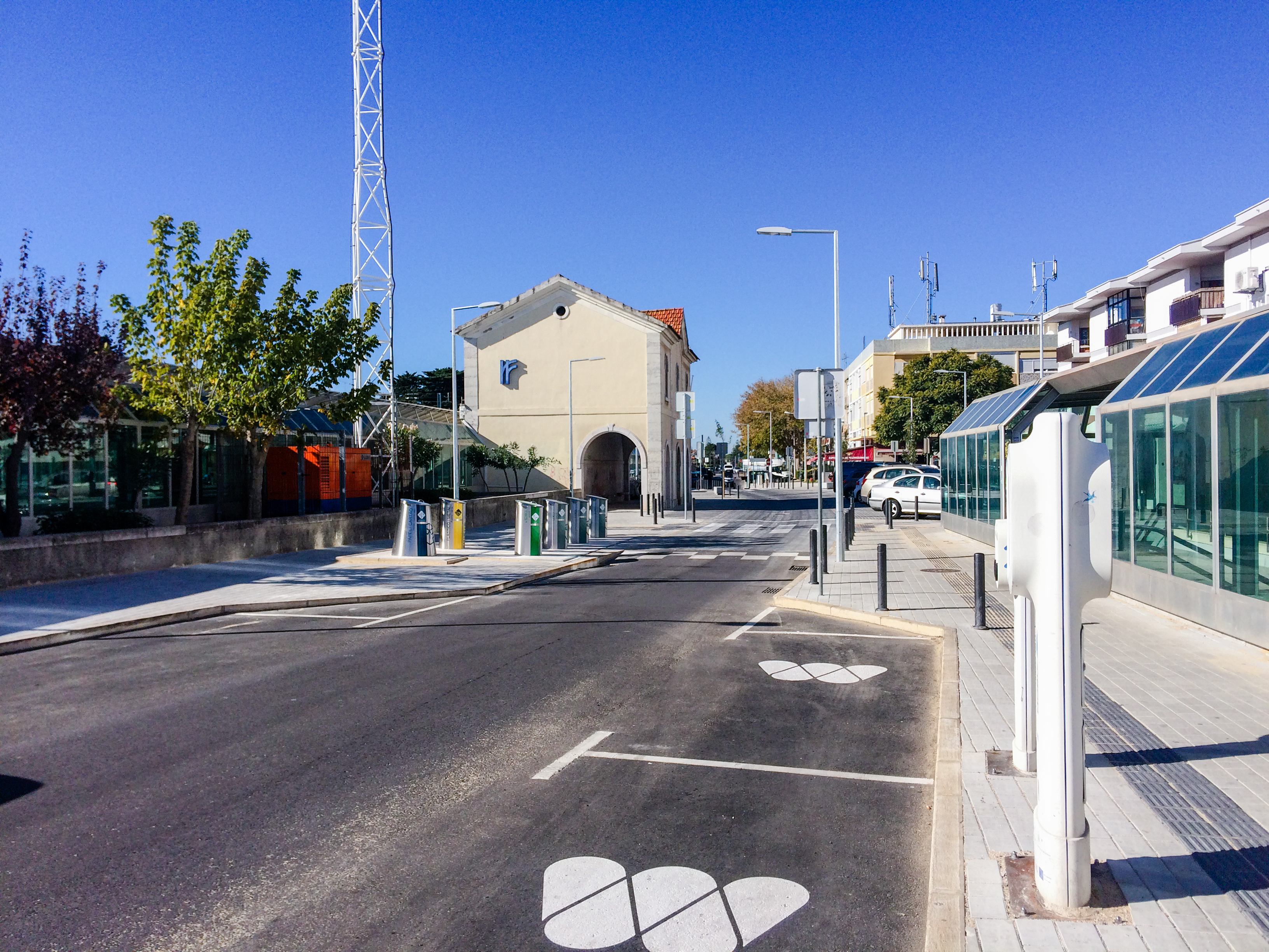 Main building of the Carcavelos train station, now unused, and its surroundings.